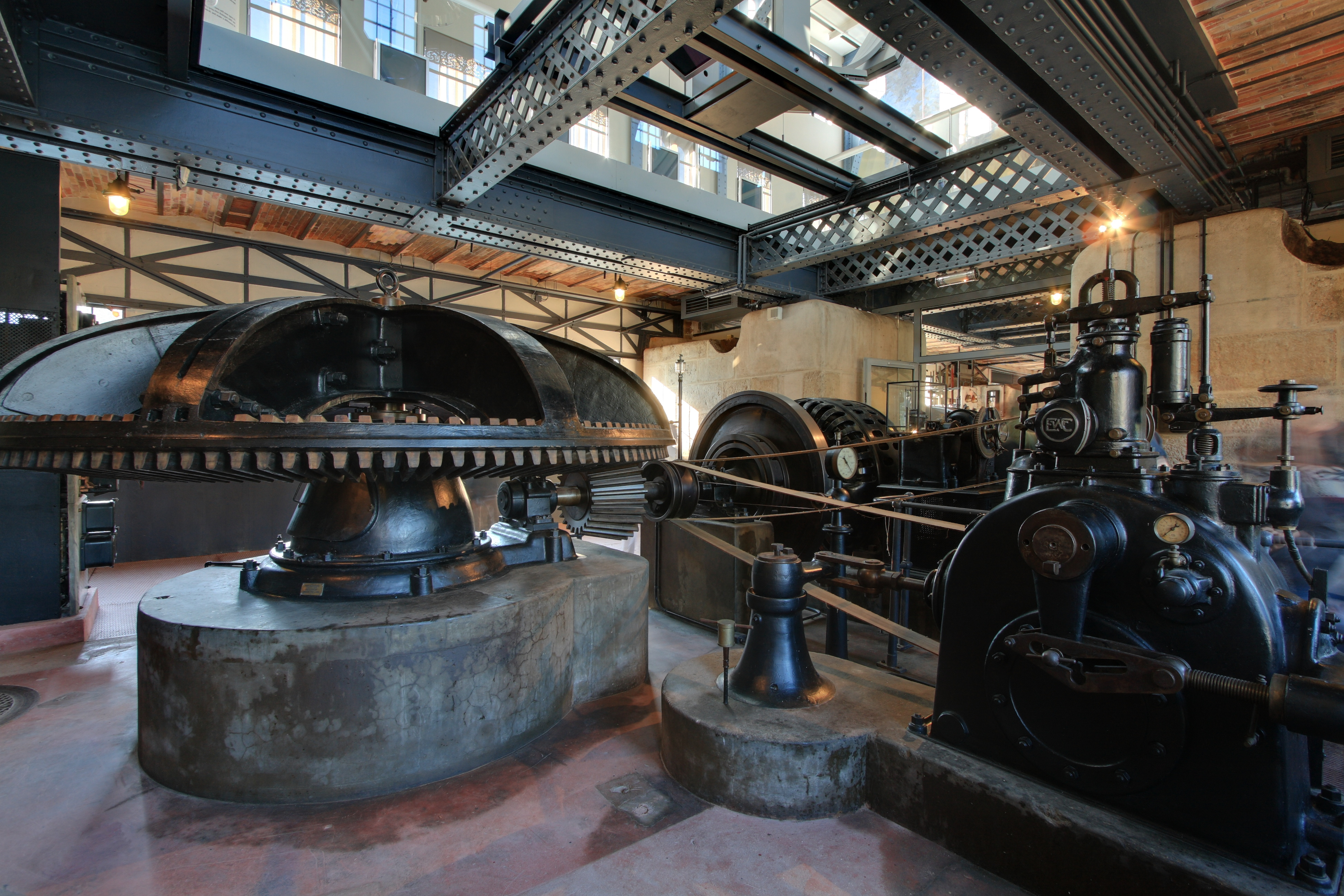 One of the three hydraulic motors, in the Saulnier watermill, which is part of the Menier Chocolate factory in Noisiel, now headquarters of Nestlé France. This picture is a result of blending 3 bracketed exposure shots, done using Enfuse.